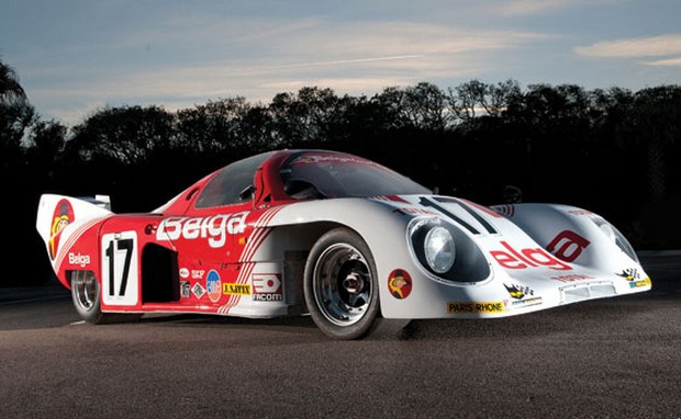 1980 Rondeau M379 B (chassis #002, built as M379 in 1979) - driven by Gordon Spice (GB)/Jean-Michel Martin (B)/Philippe Martin (B) - This car is a multiple 24 Hours of Le Mans class-winner: 1st in "over 2 litre sportcar" in 1979 (original version), 1st in "GTP" class in 1980 ("B" version - this livery) and 1981 ("C" version) (